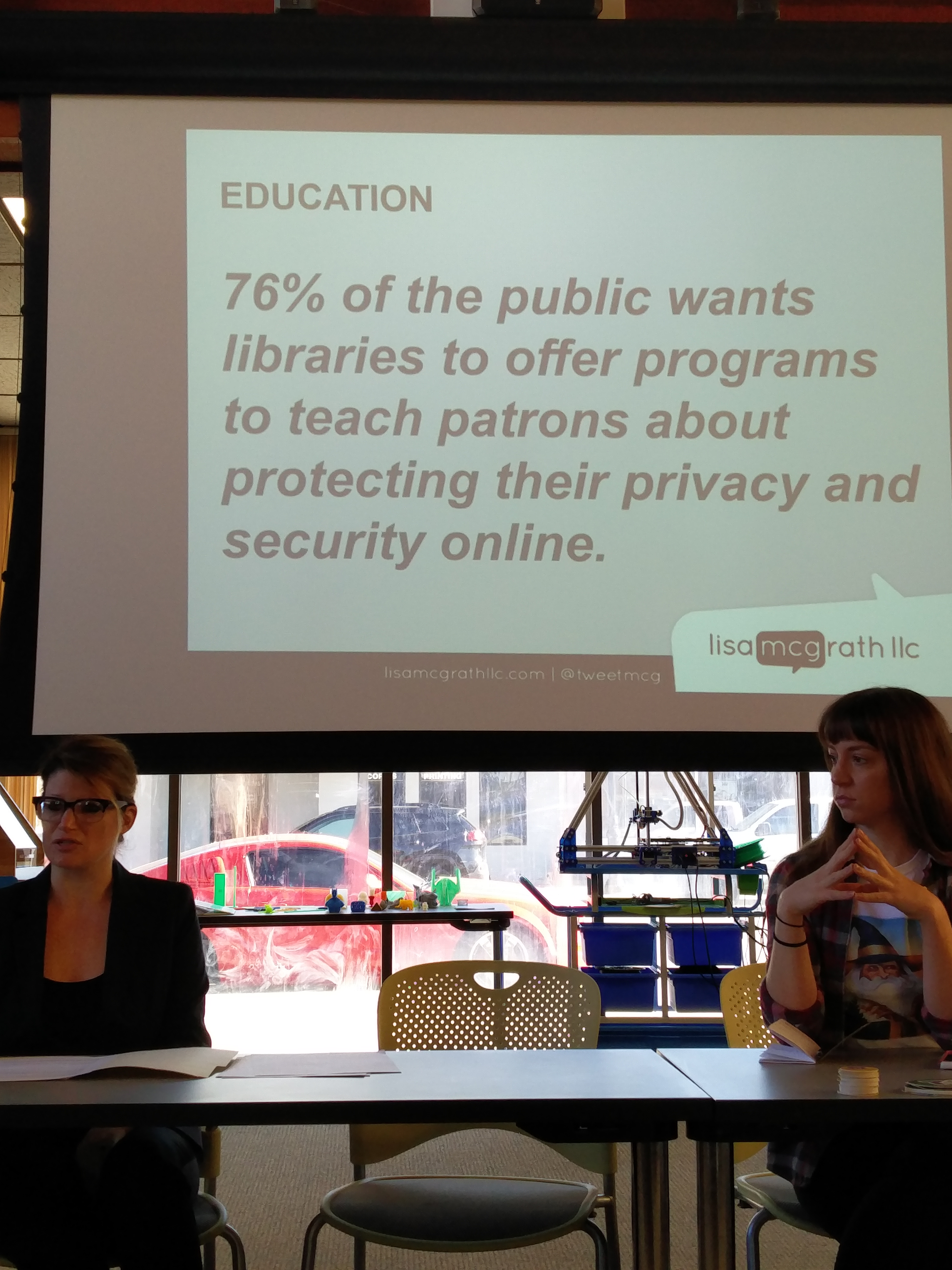 An ACLU attorney and the director of the Library Freedom Project conduct a privacy workshop in Meridian, Idaho at unBound, the technology lab of the Meridian Library District in January 2016.